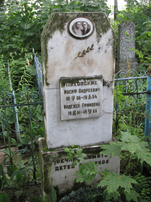 Tomb of Puchowski family (Jazep and Nadzeia) at the Eastern Orthodox cemetery in Pruzhany